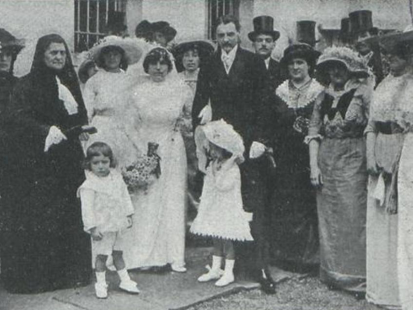 wedding of Esteban Bilbao and Maria Urisbasterra, Durango 1913